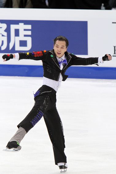 Abzal Rakimgaliev at the 2011 Four Continents Championships.